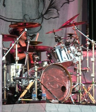 Roy Mayorga performing with Stone Sour at Rockstar Uproar Festival in Council Bluffs, IA